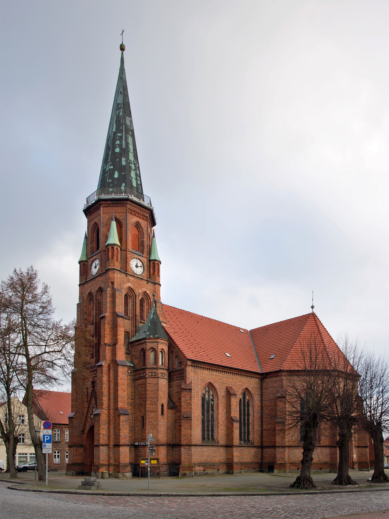 Church of the small town Dömitz (district Ludwigslust-Parchim, northern Germany).